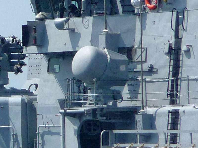 One of six MR-90 «Orekh» Illuminators of «Shtil'» SAM System (Indian Navy Destroyer DD61 «Delhi» in Vladivostok, Russia, 2011-04-19)